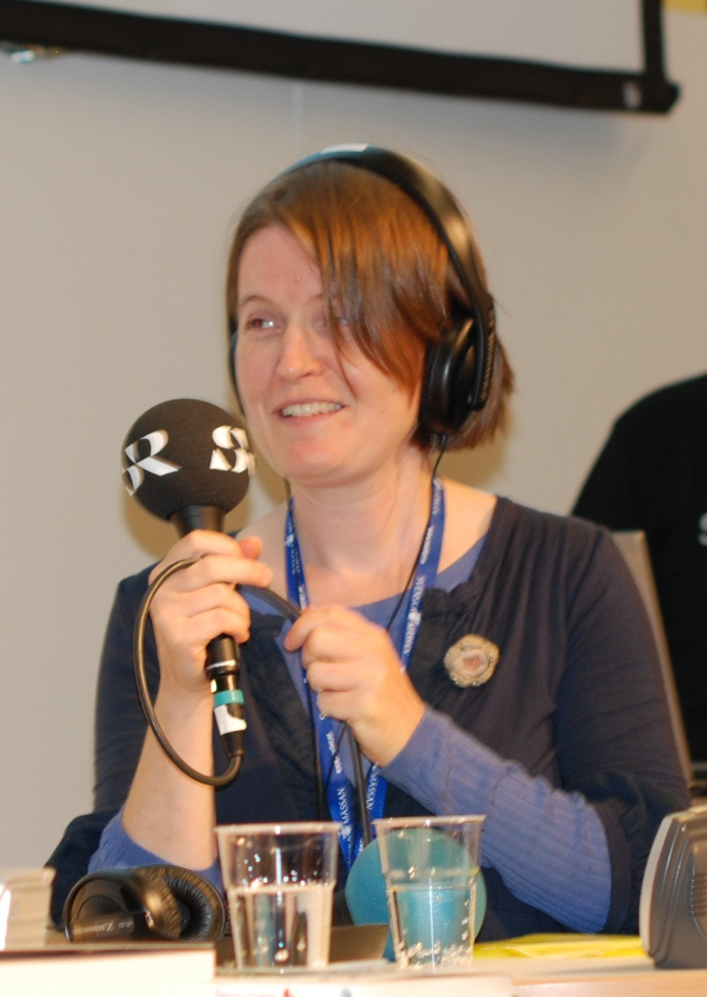 Swedish radio journalist Louise Epstein at Göteborg Book Fair 2010